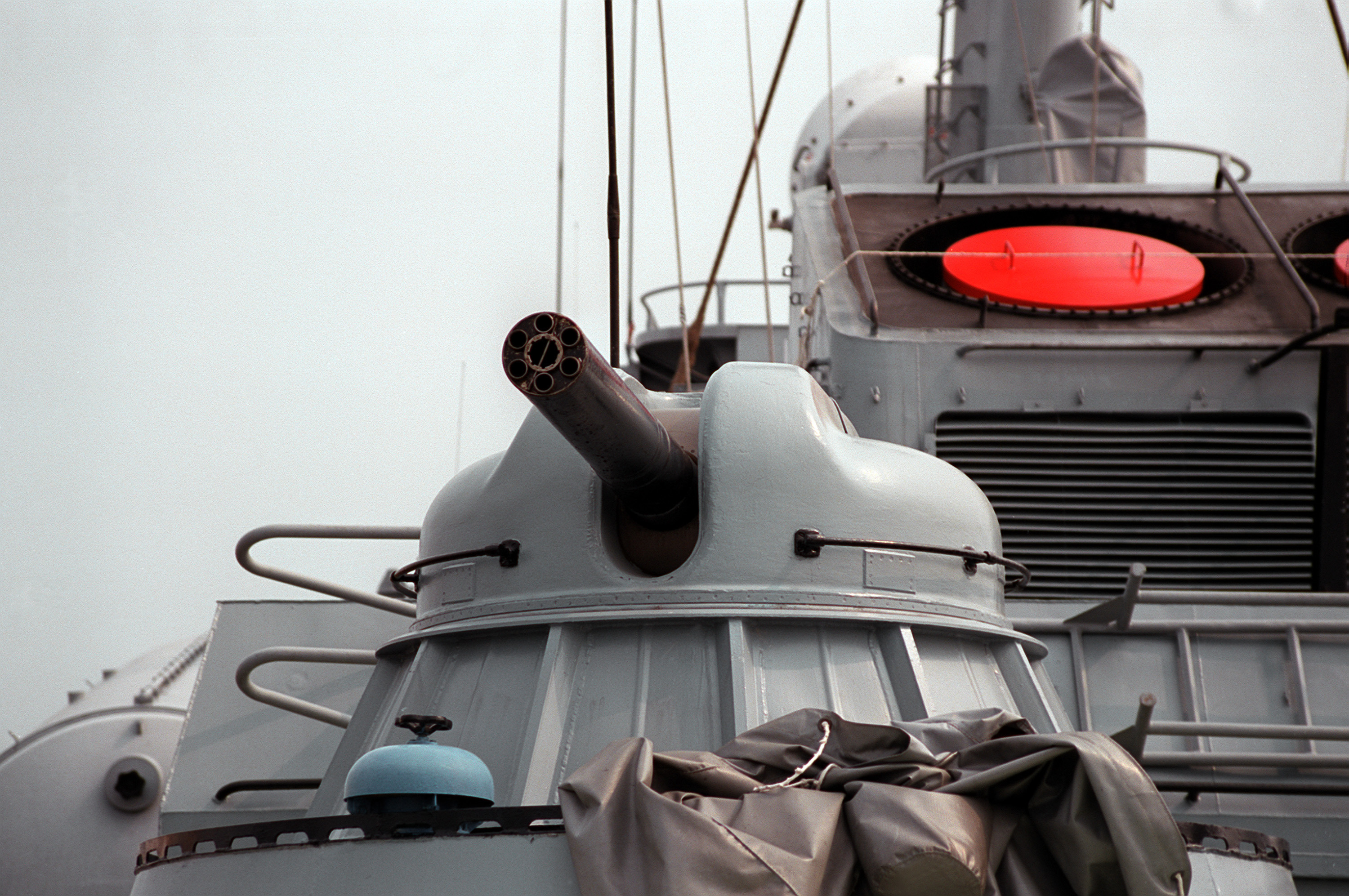 AK-630 Naval gun 30 mm cannon from ID: DNSC9305853 Service Depicted: Navy A view of one of the AK-630 30mm/65 caliber multi-barrel close-in weapons systems aboard the USNS HIDDENSEE (185NS9201) moored at the Naval Sea Systems Command facility at Solomons Annex. The Soviet-built Tarantul I class missile corvette was acquired from the Federal German navy in November 1991, and is currently undergoing testing and evaluation by the U.S. Navy. Named Rudolf Egelhofer when it was part of the East German navy, the ship was renamed HIDDENSEE after the reunification of Germany in 1990. Camera Operator: DON S. MONTGOMERY Date Shot: 25 Aug 1993